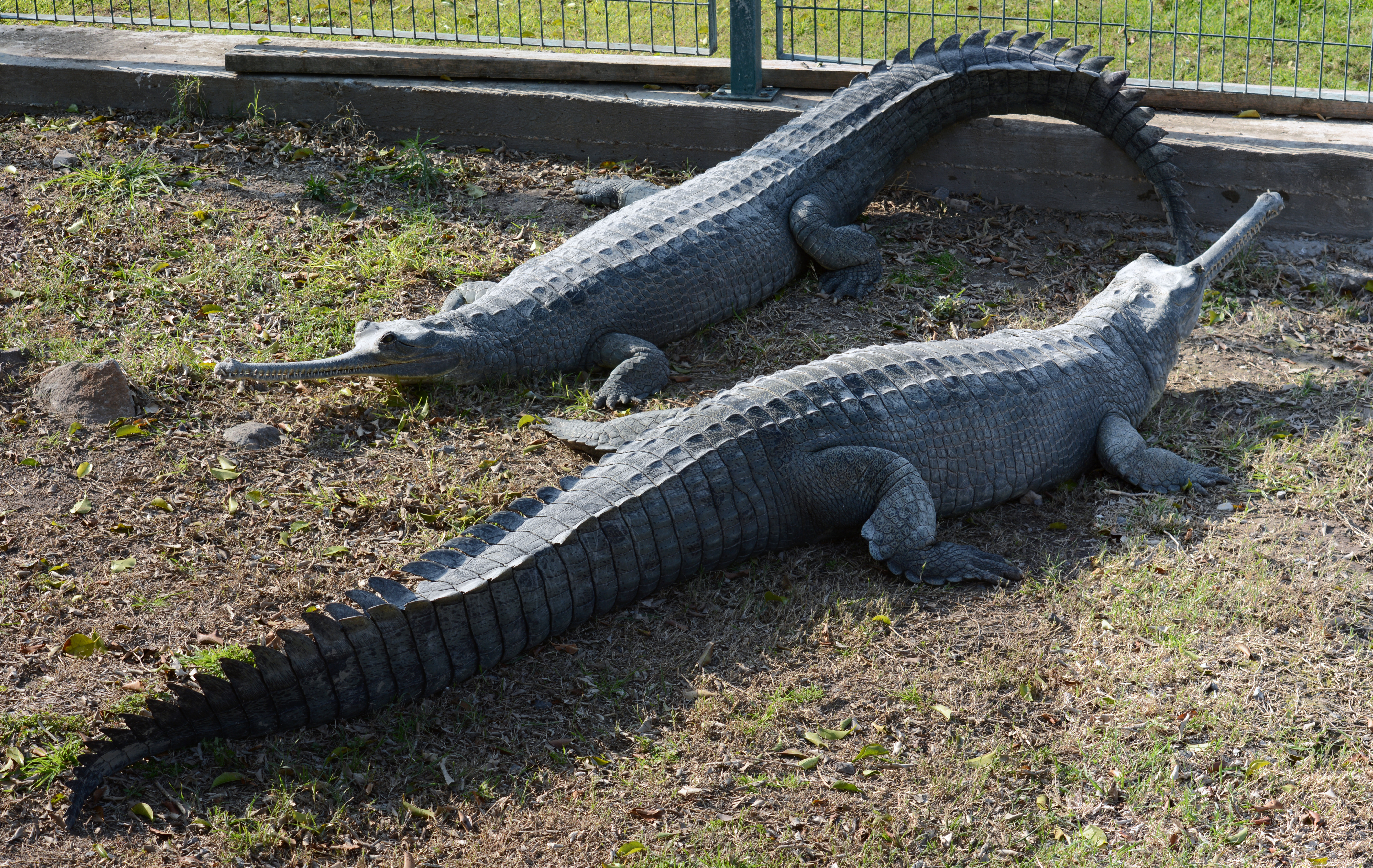 Gavialis gangeticus. Crocodiles in Hamat Gader, Israel